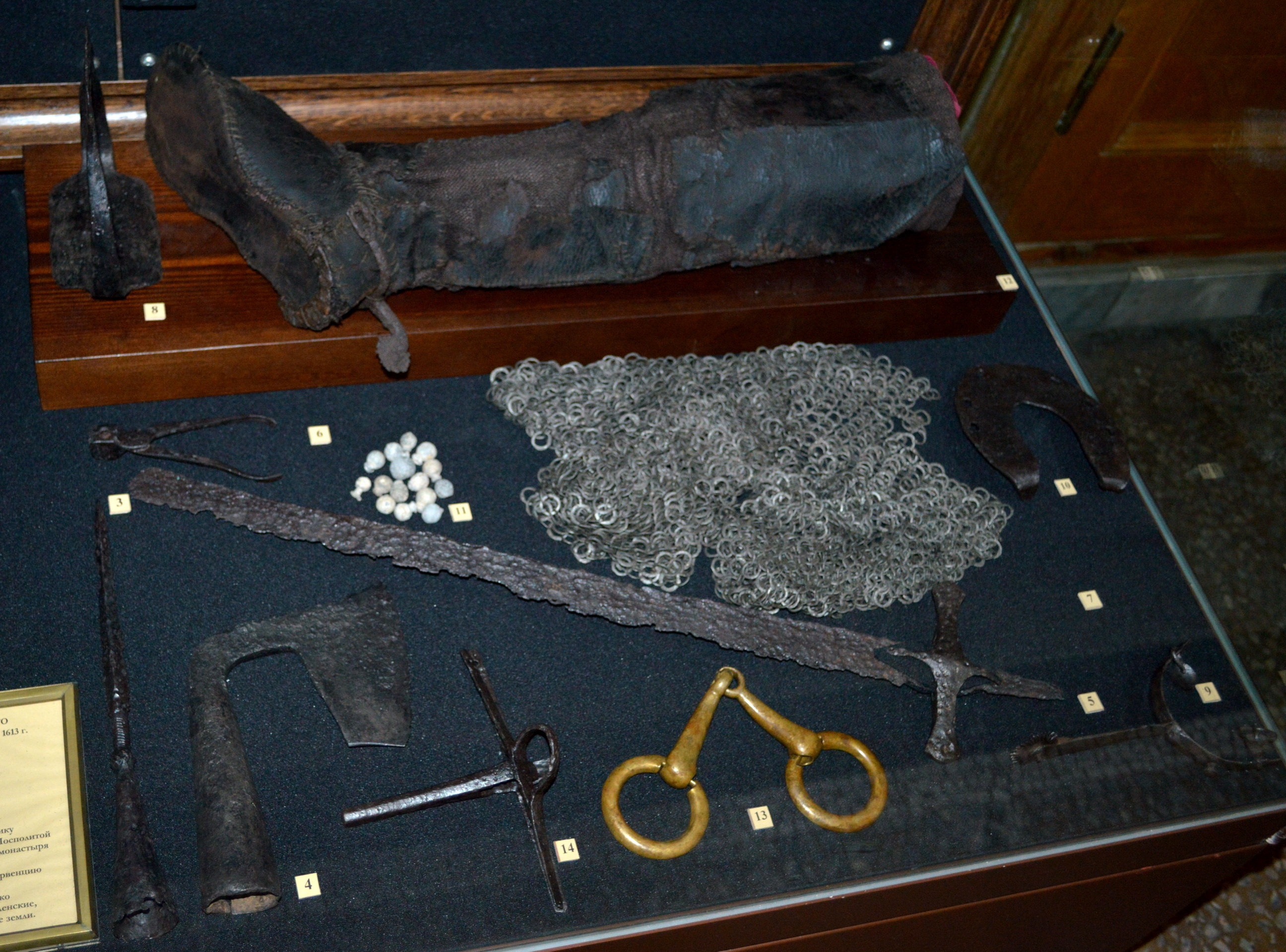 Archaeological artefacts from camp at Tushino of False Dmitry II.